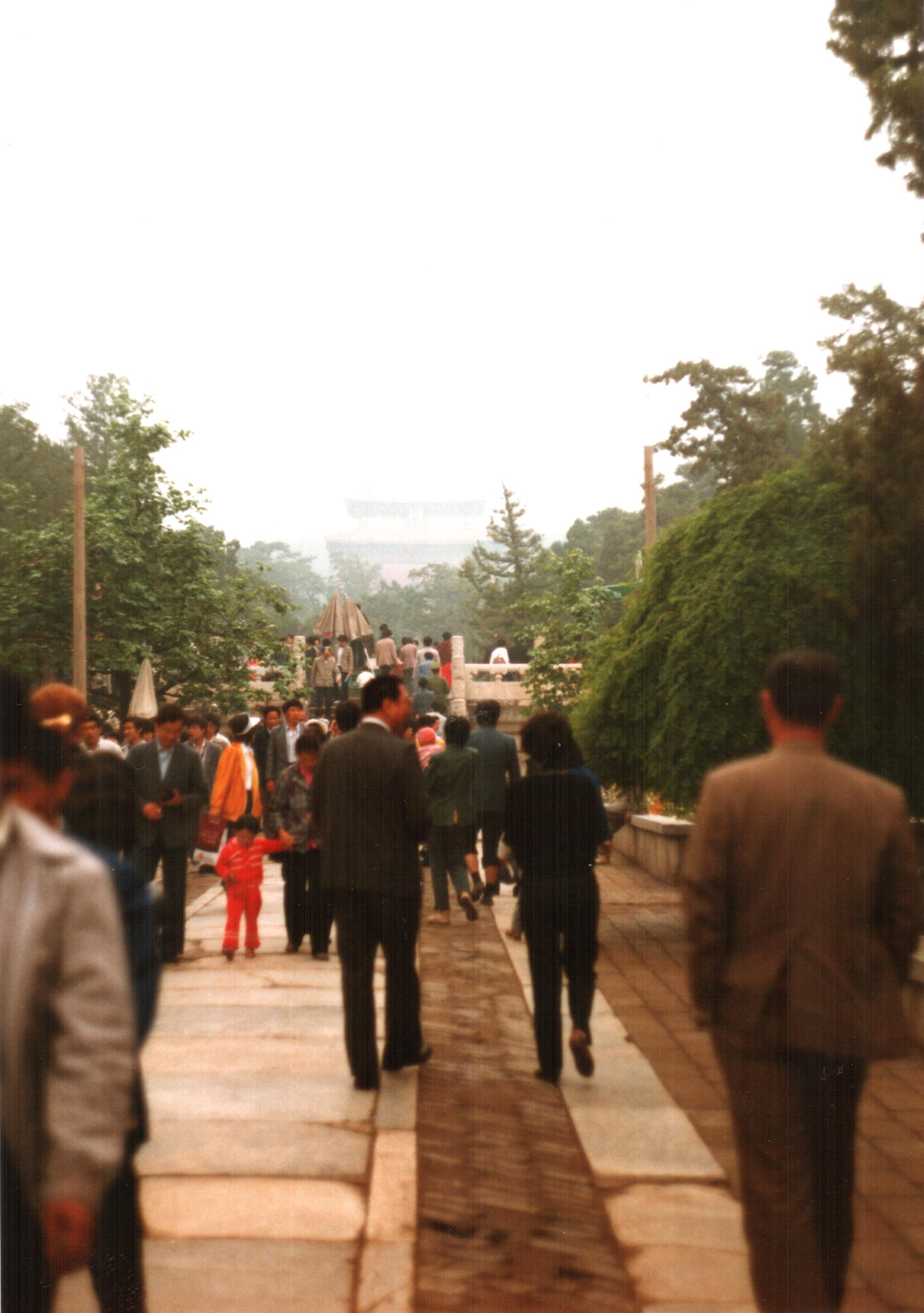 Live in May, 1988. Badaling, Great Wall, China. I had to travel to China, then to North Korea. One day – just relaxing in Budapest – next day on a jet over the gulf. We saw the canon firing beneath (Iran-Iraq war, 1980-1988). China was a mystery, an other planet at the time. Flying homebond I read the chinese newspaper: János Kádár is gone. Published under Creative Commons in Metapolisz DVD line. Paper, Zenit-E. Tags: Badaling Great Wall Beijing China 1988 People’s Republic of China Iran-Iraq War János Kádár Zenit E Metapolisz